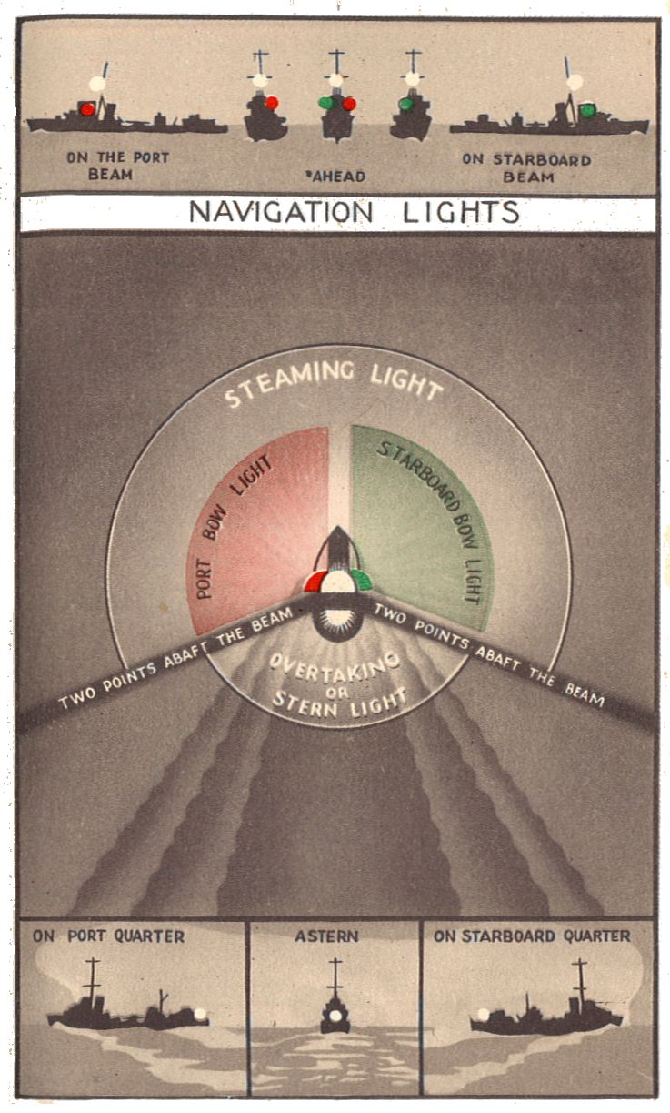 Navigation lights (Seaman's Pocket-Book, 1943).jpg